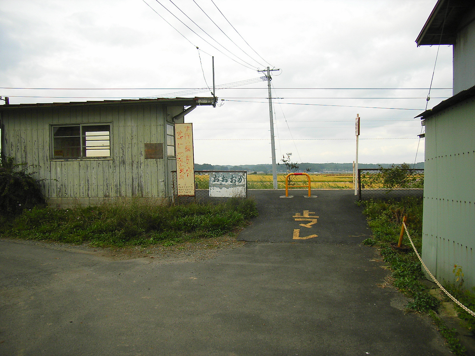 The entrance of the Ōoka Station of the Kurihara Denen Railway. Kurihara, Miyagi prefecture, Japan.